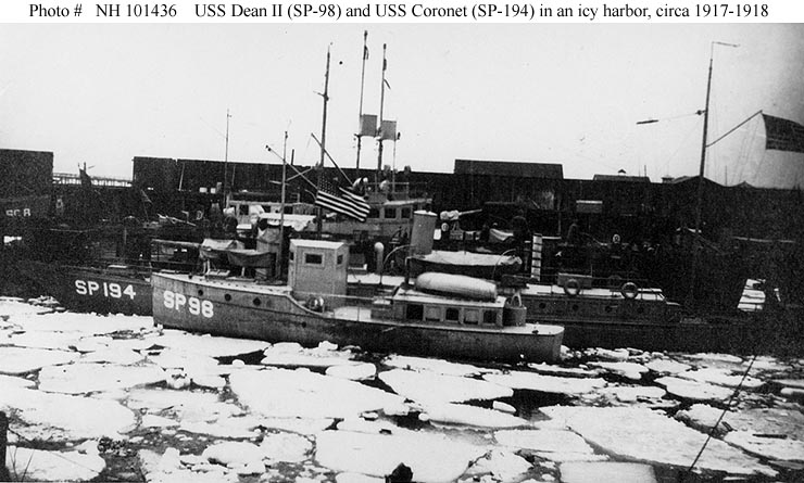 United States Navy patrol boat USS Dean II (SP-98) in an icy port in the winter of 1917-1918. Patrol boat USS Coronet (SP-194) is alongside her to starboard of her, and submarine chaser USS SC-8 is partially visible in the left background.